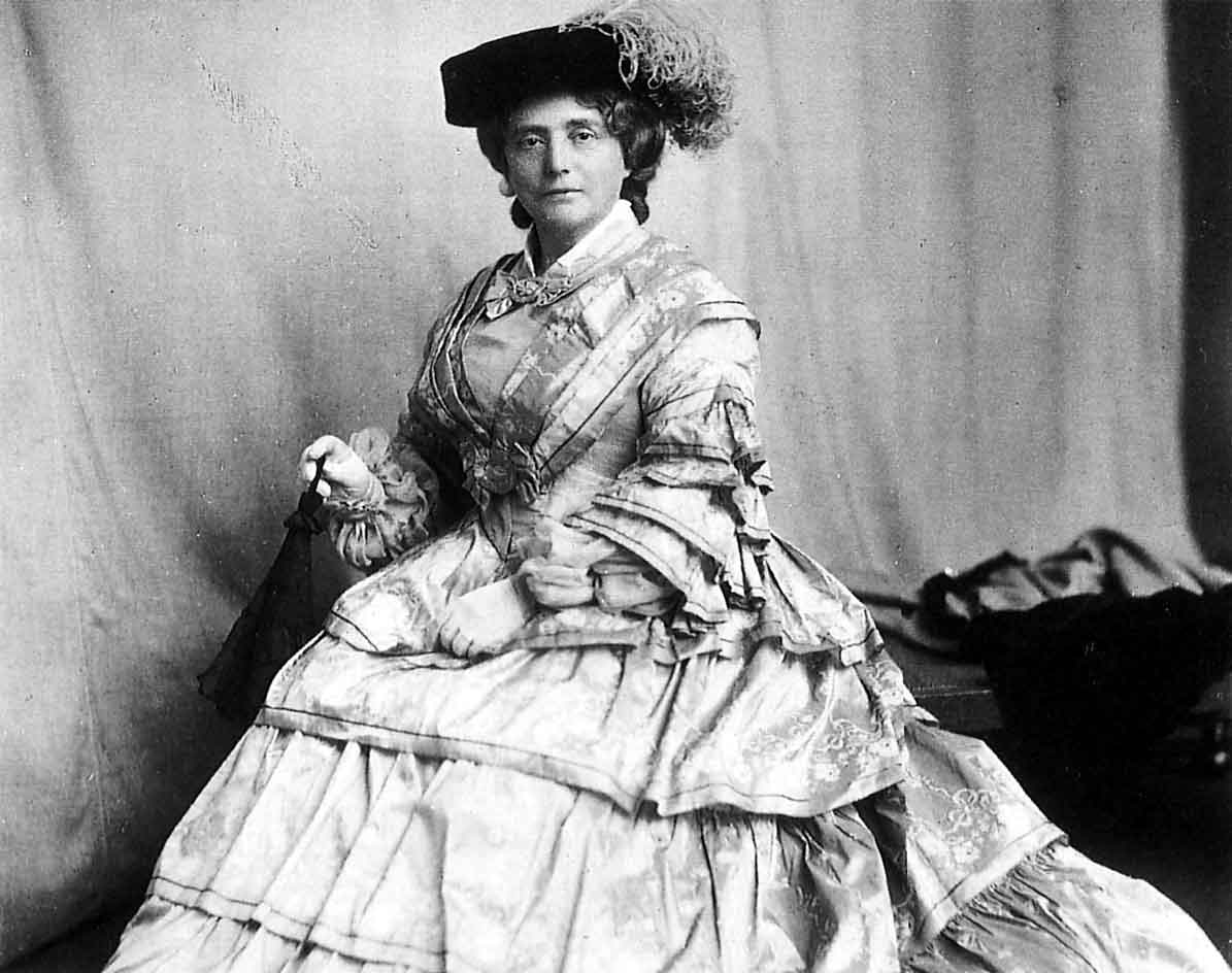 portrait of Kate Cranston